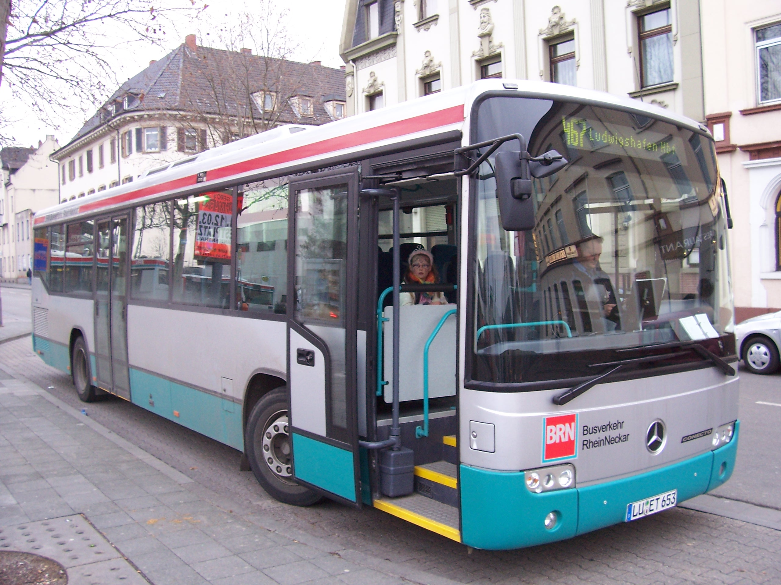 A Mercedes-Benz Türk O 345 H Conecto bus in Frankenthal, Germany My own photo